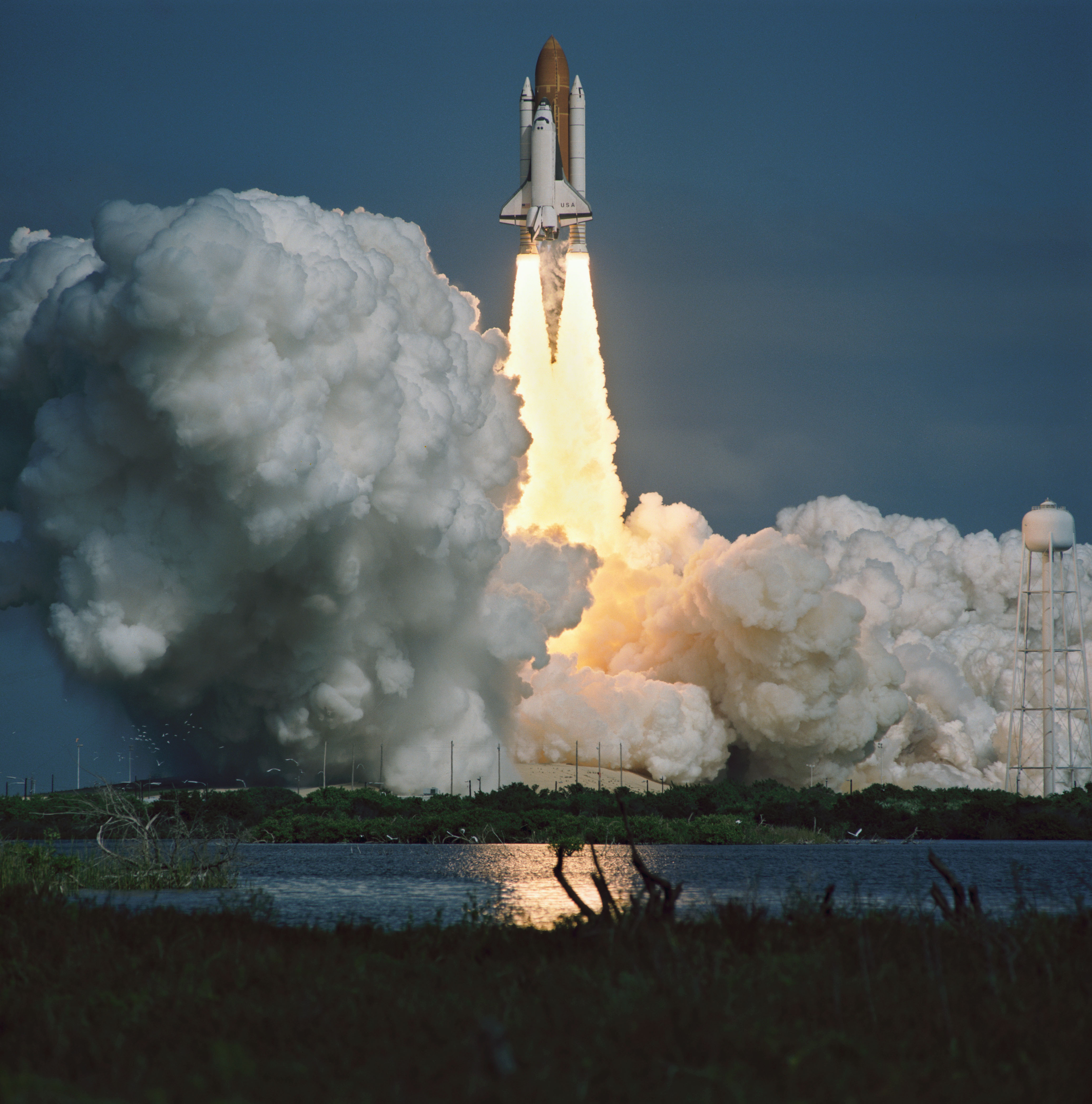 Creating large clouds of smoke, the Space Shuttle Columbia, with a crew of seven and a science module aboard, lifts off. This close-up view is taken from across a body of water near the launch site.